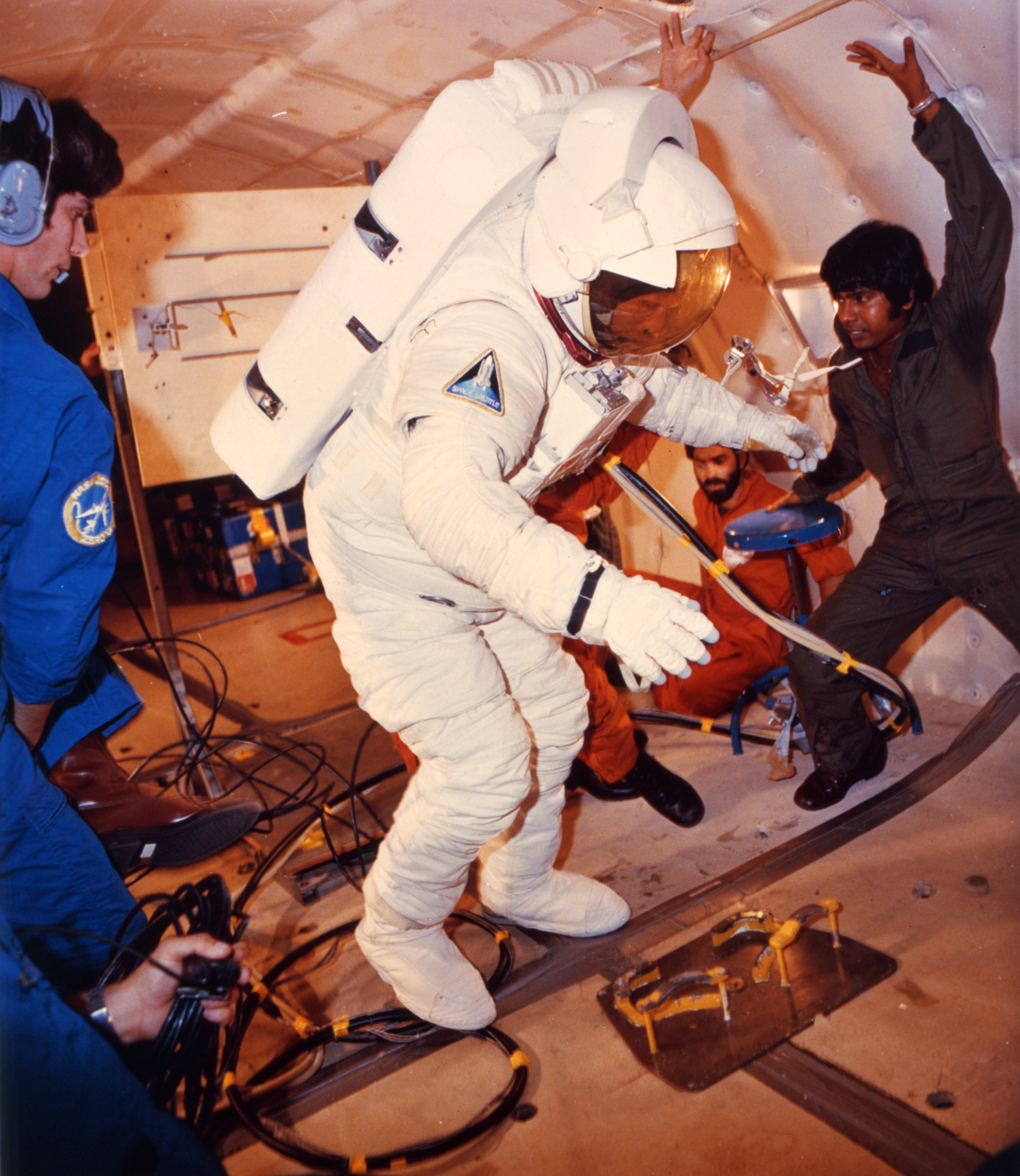 Astronaut C. Gordon Fullerton, STS-3 pilot, gets a preview of what it might be like in space during a flight aboard NASA's KC- 135 "zero-gravity" aircraft. A special parabolic pattern flown by the aircraft provides shore periods of weightlessness. These flights are nicknamed the "vomit comet" because of the nausea that is often induced. Fullerton's suit is an extravehicular mobility unit (EMU), used by astronauts when leaving the Shuttle orbiter to go outside and perform tasks in space. There was no EVA on the STS-3, but crewmembers are trained in that area in the event of the necessity to perform chores in space that for some reason could not be done remotely. Fullerton donned his suit during a parabola and took the opportunity to float around in the absence of gravity.